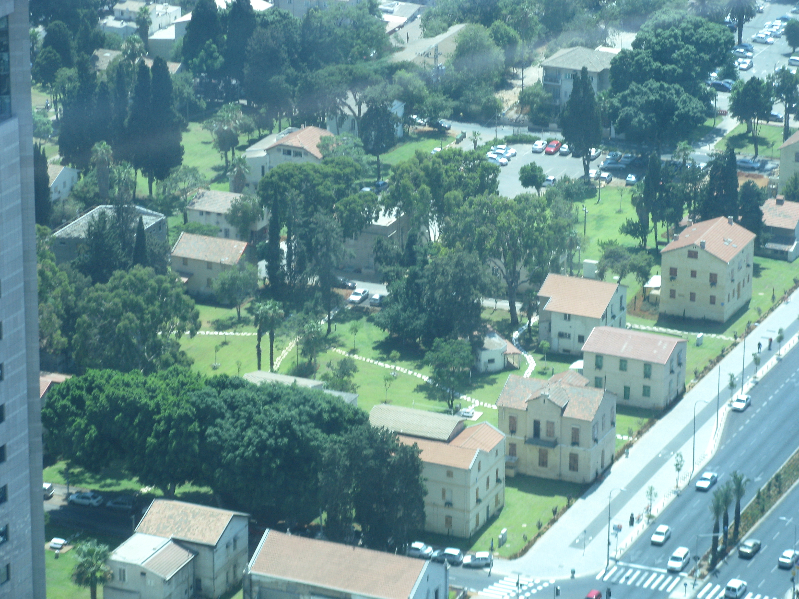 View of the German Colony in Tel Aviv, Israel (next to Kaplan St), from Azrieli Towers observation point